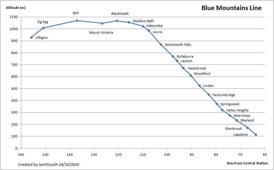 Blue Mountains Railway Line showing Station Altitude vs Distance